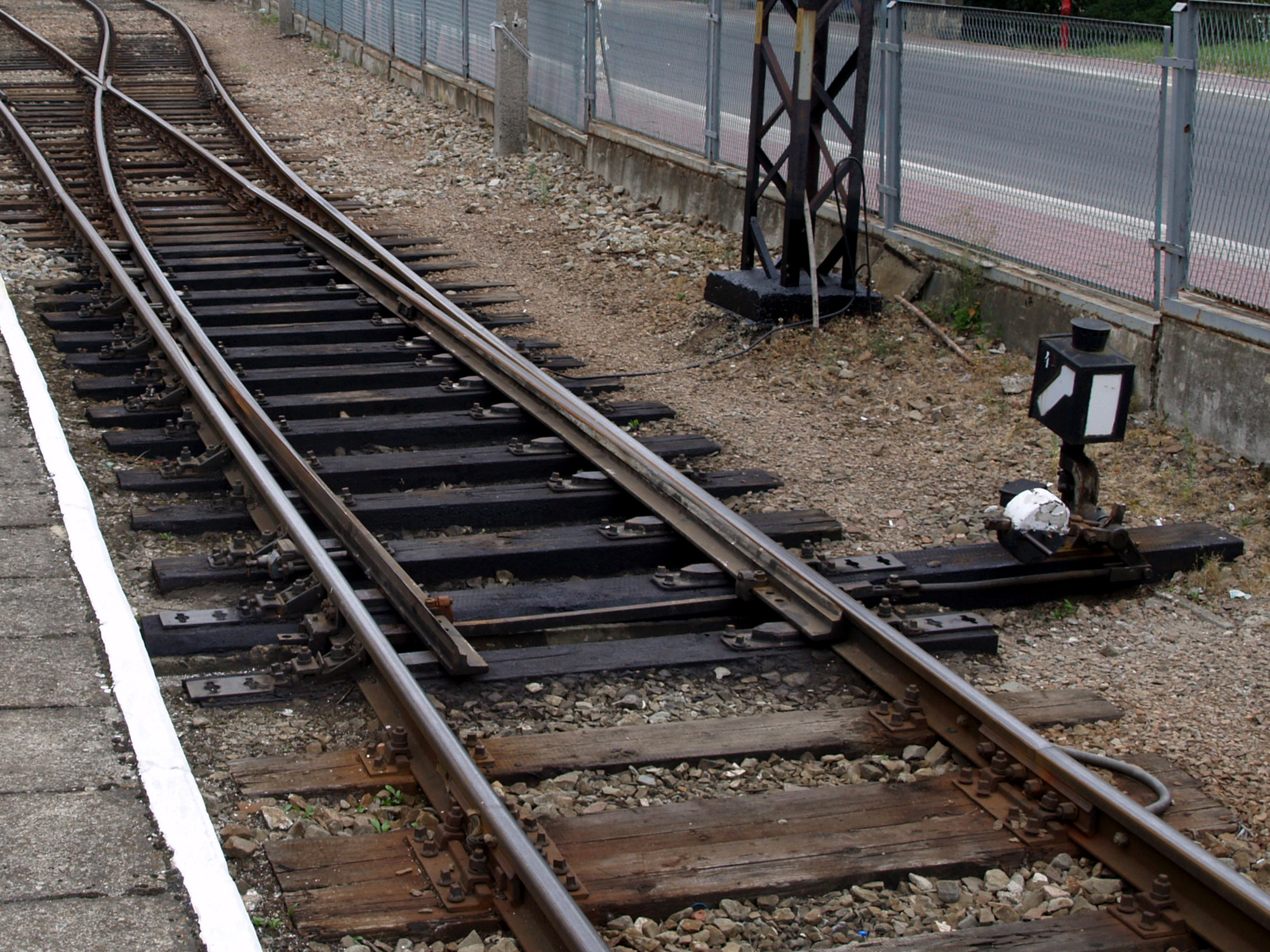 Right-hand railroad switch, at the train station in Krynica-Zdrój. Manual drive, set to straight route.